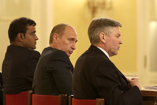 HALL OF COLUMNS, MOSCOW. President Putin with Education Minister Vladimir Filippov and President Bharrat Jagdeo of Guyana at the World Forum of Foreign Graduates of Russian (Soviet) Higher Education Institutions.